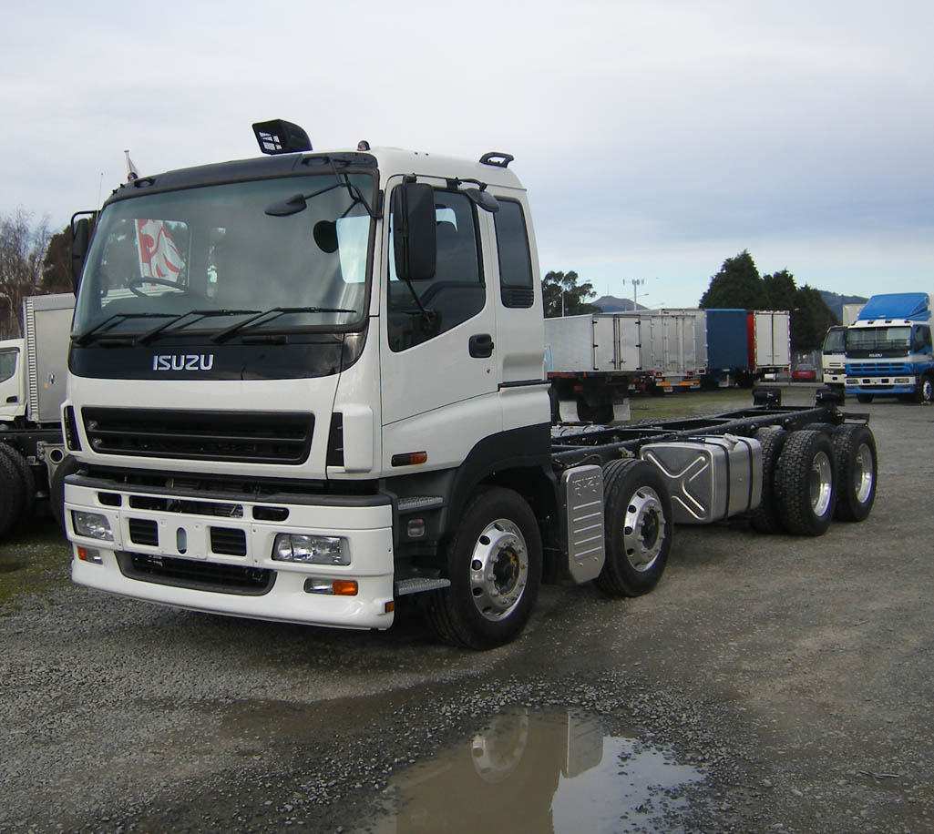 2008 Isuzu CYJ460R - Isuzu AMT transmission - 8 bag air suspension - New Zealand new model - Taken at Blackwell Isuzu Chch.